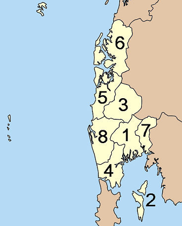 Map of Phang Nga province, Thailand, listing the districts. Mueang Phangnga Ko Yao Kapong Takua Thung Takua Pa Khura Buri Thap Put Thai Mueang